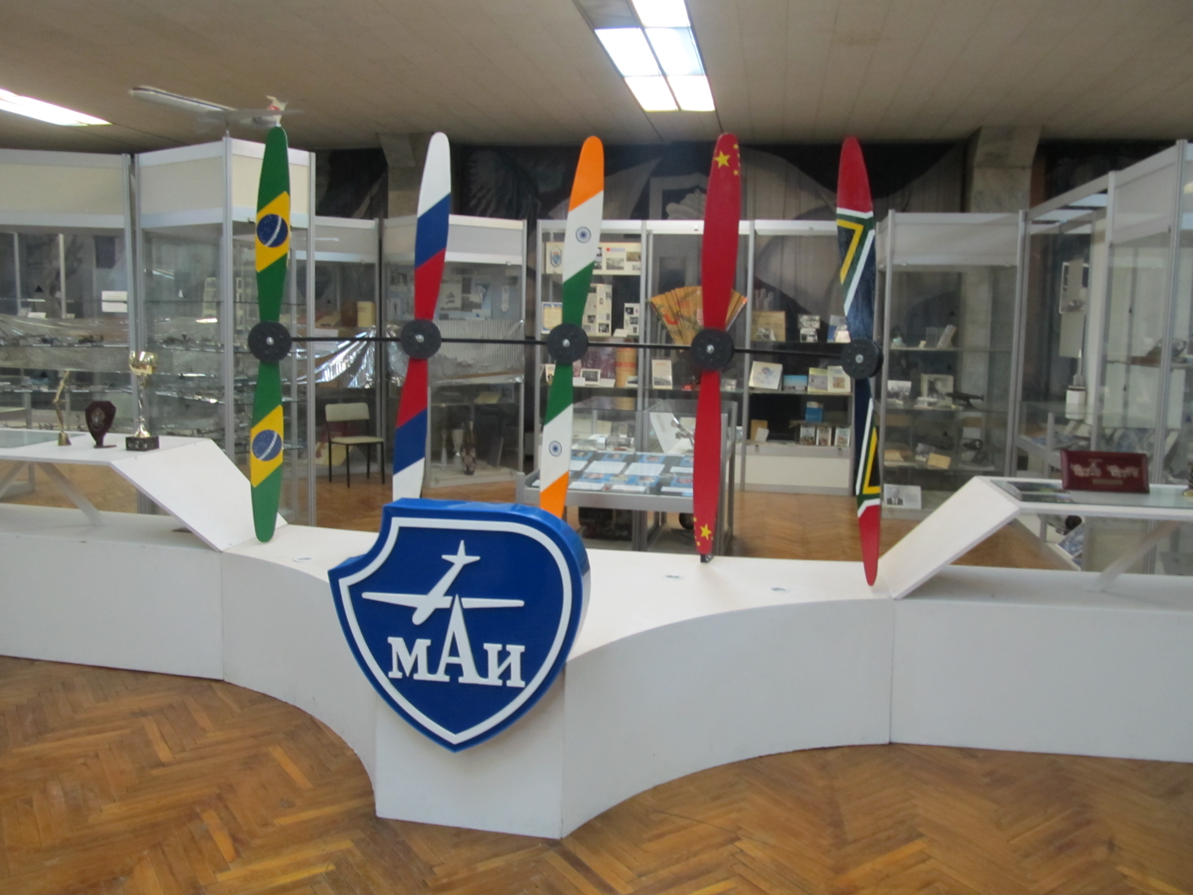 Museum of Moscow Aviation Institute